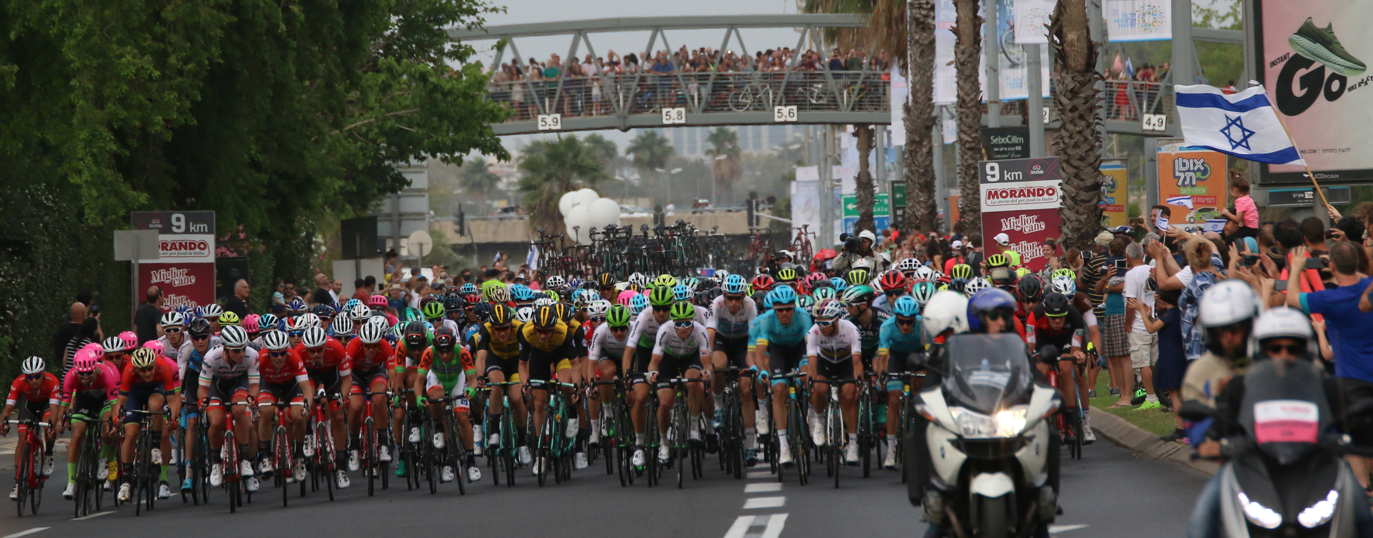 Giro d'Italia 2018 - stage 2, Tel Aviv